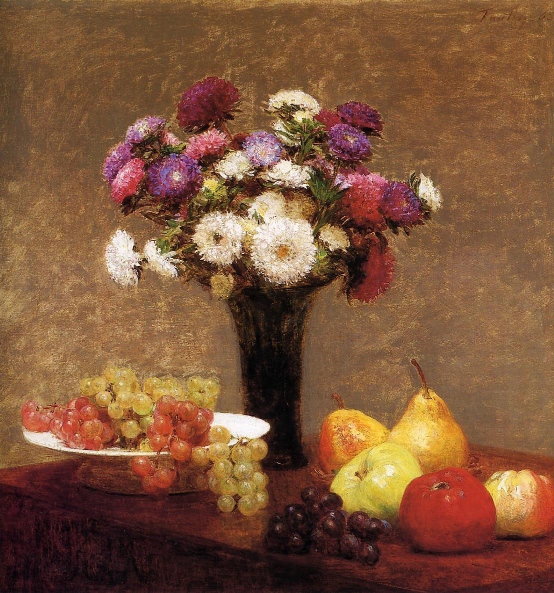 Henri Fantin-Latour's art